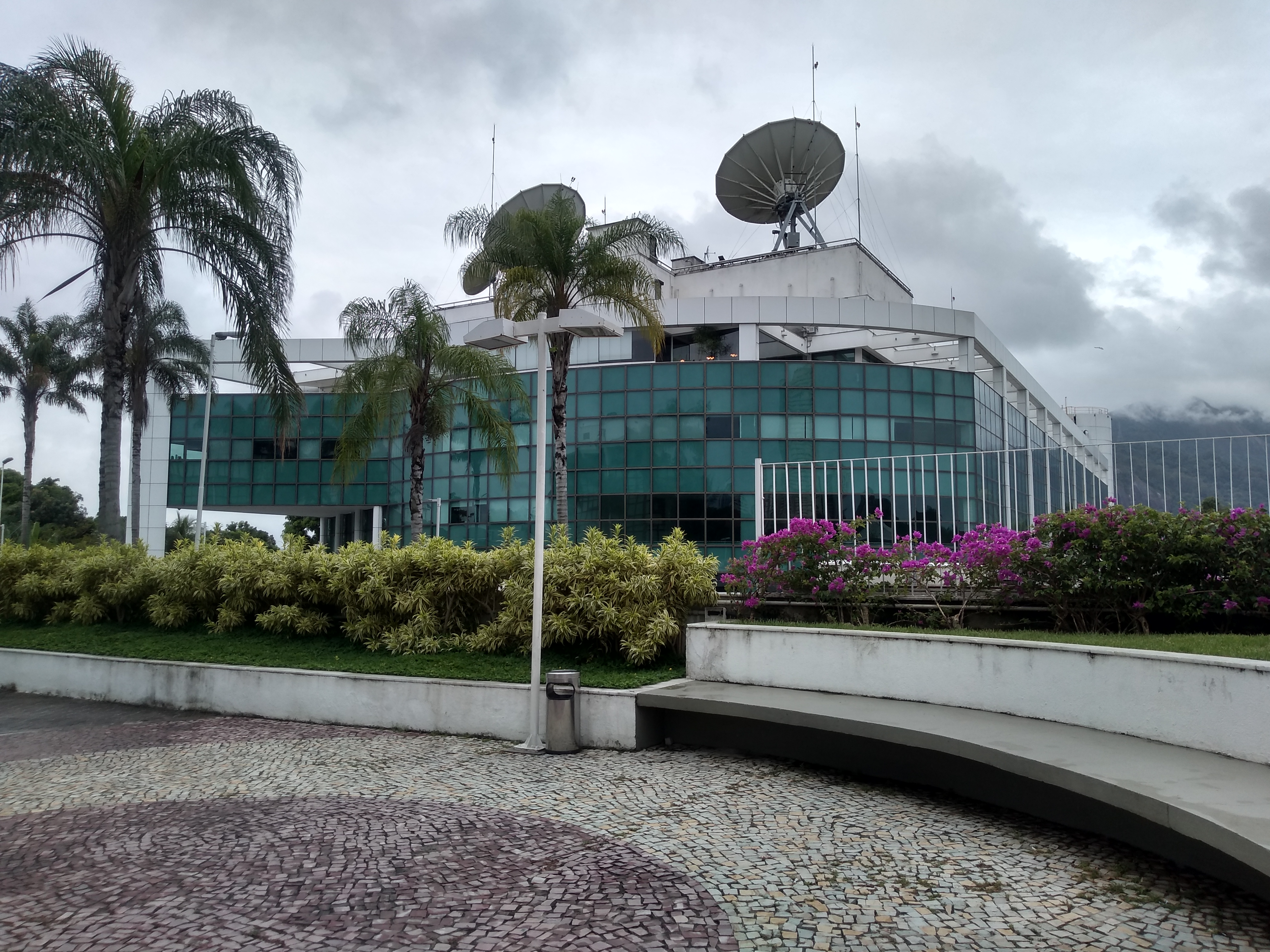 Headquarters of Globosat in Barra da Tijuca, West Zone of Rio de Janeiro.